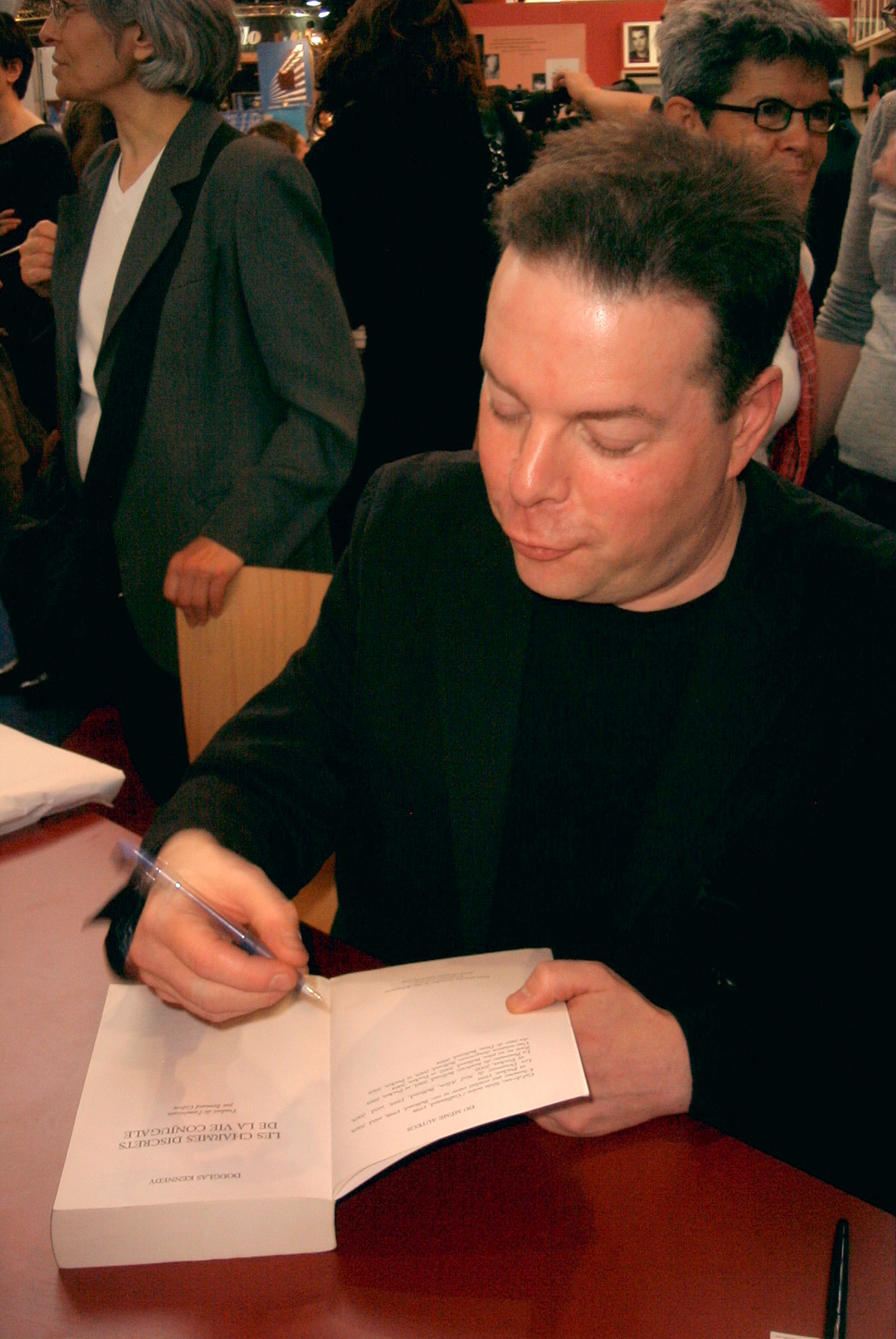 Douglas Kennedy by Jean-Marie David